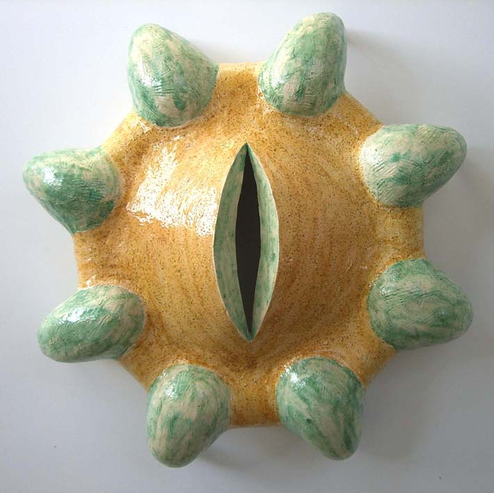 little oyster - pocelain